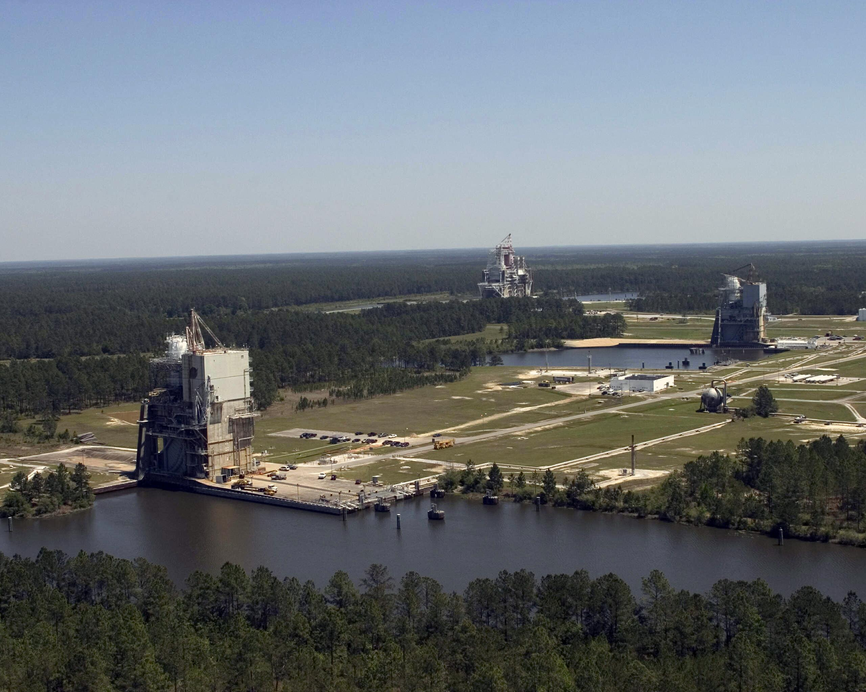 SSC's A-1, A-2 and B test stands were built in the early 1960s to test the first and second stages of the Apollo Saturn V rocket that safely transported Americans to the moon. The A-1 Stand (foreground) will soon test the J-2X engines that will power the rockets to take Americans back to the moon.